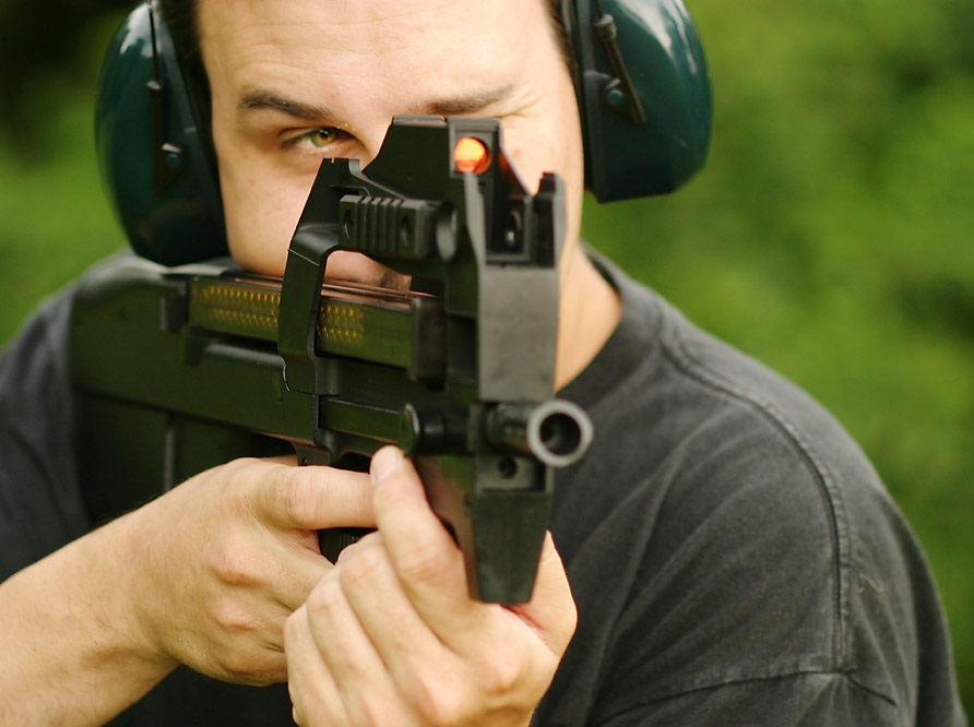 Michael Z. Williamson and FN P90